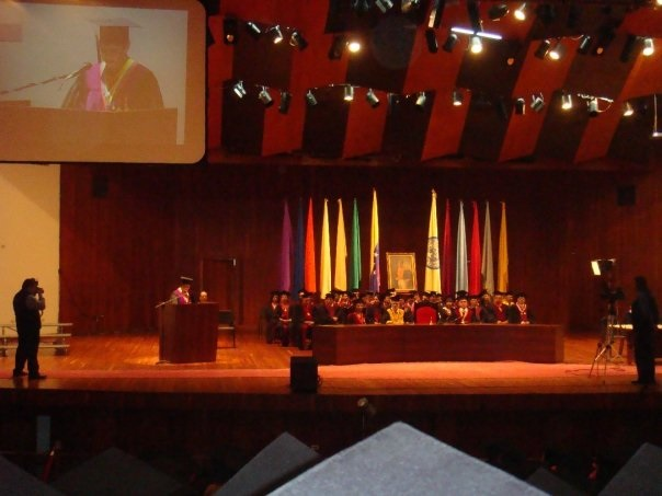 Aula magna ucv caracas venezuela pic 2